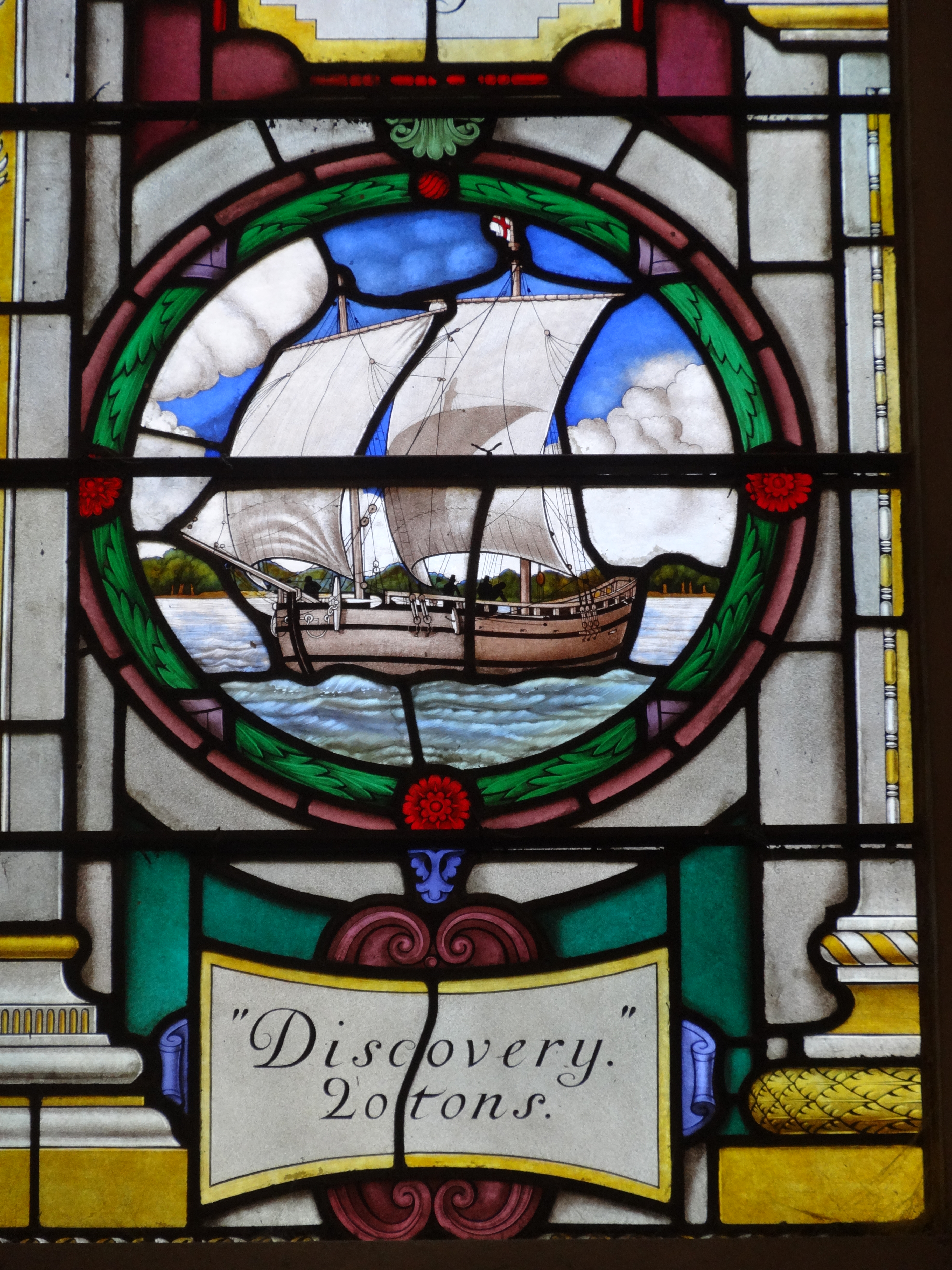 Stained glass windows in St Sepulchre-without-Newgate